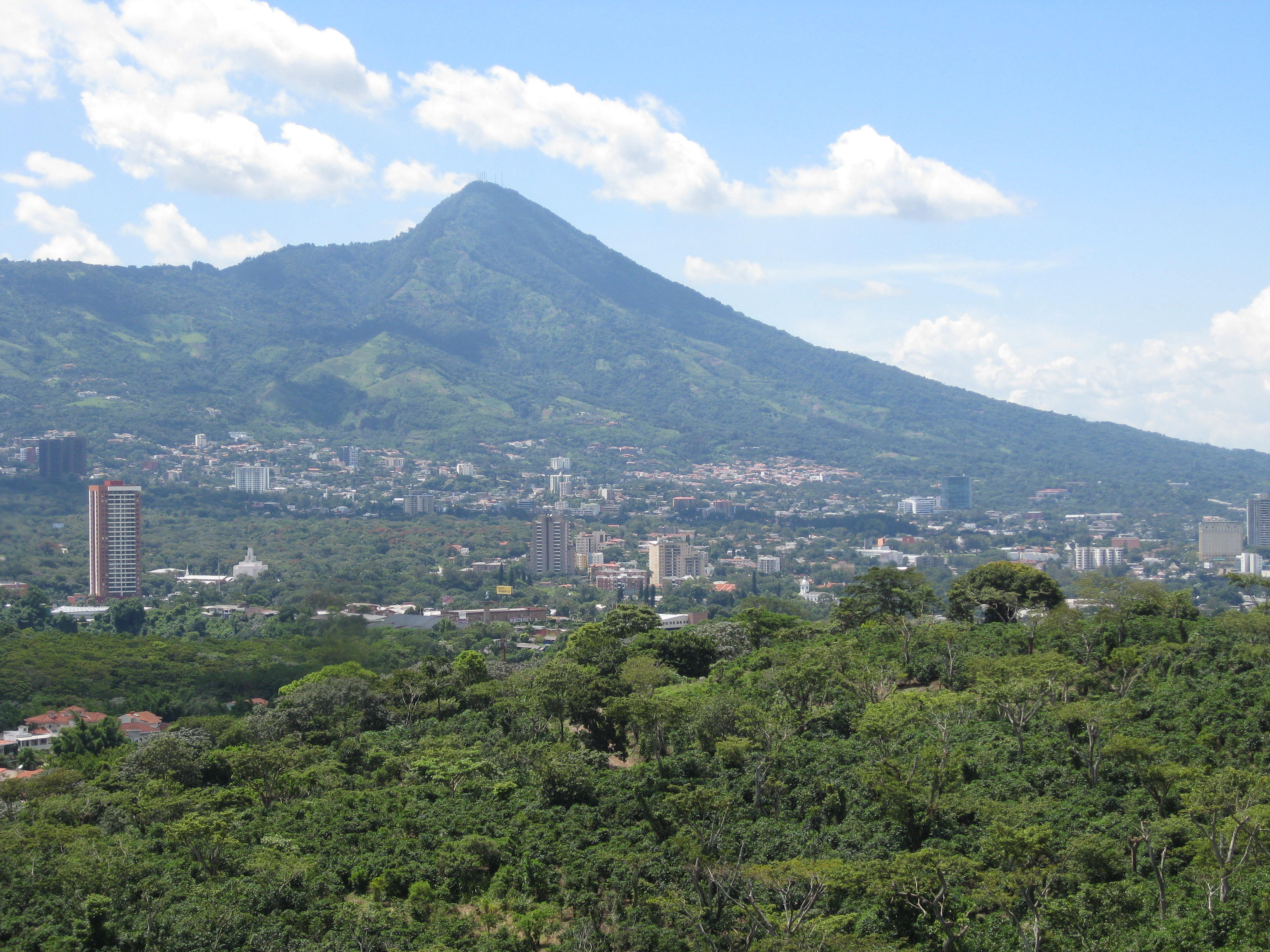 The Complete Skyline 2011